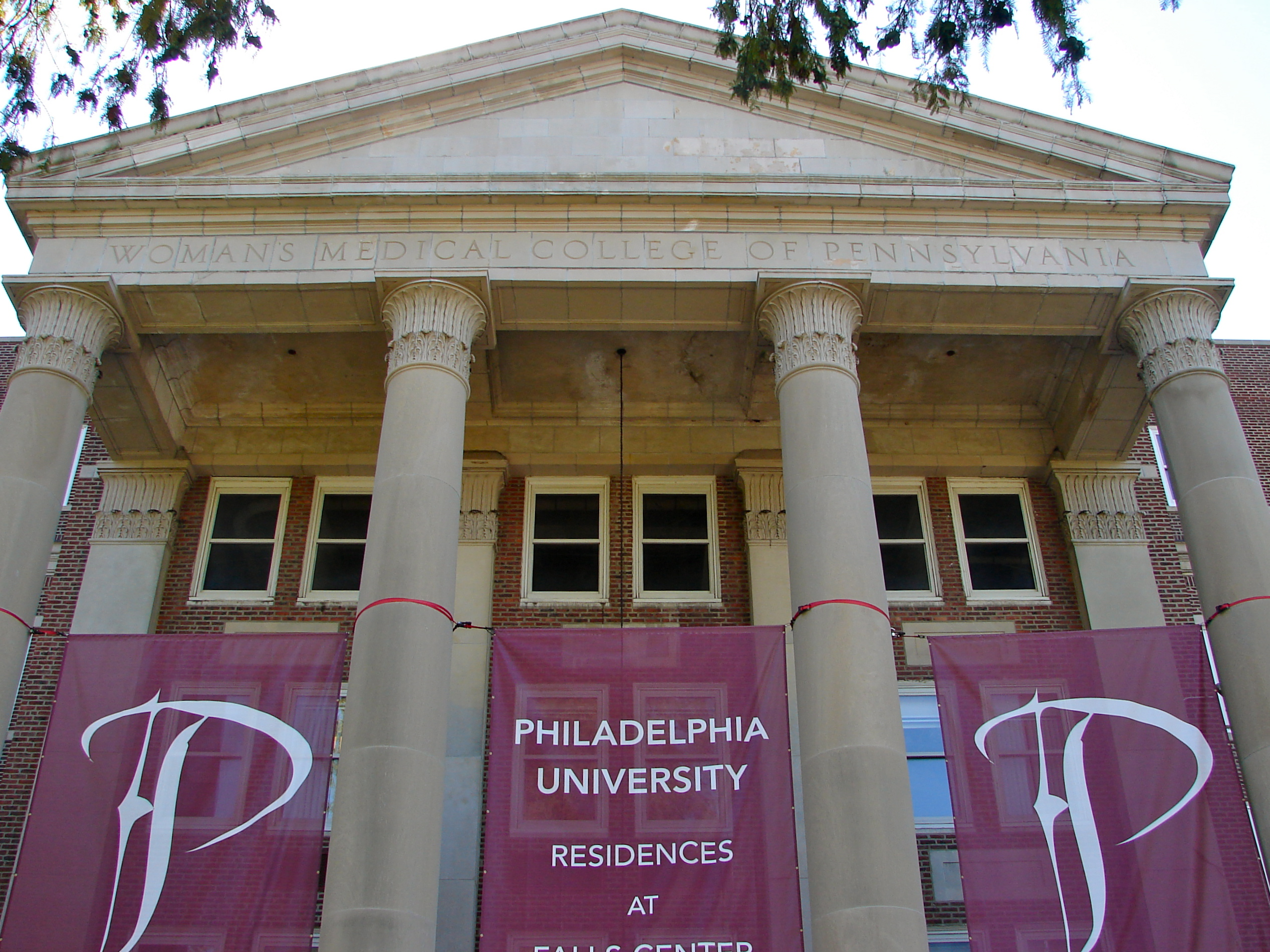 Woman's Medical College of Pennsylvania on the NRHP since November 26, 2008. At 3300 Henry Ave. (Near Indian Queen Lane) in the East Falls neighborhood of Northwest Philly. Just off US Route 1. Now used in a variety of uses: housing for Medical students, medical clinic, restaurant, etc.